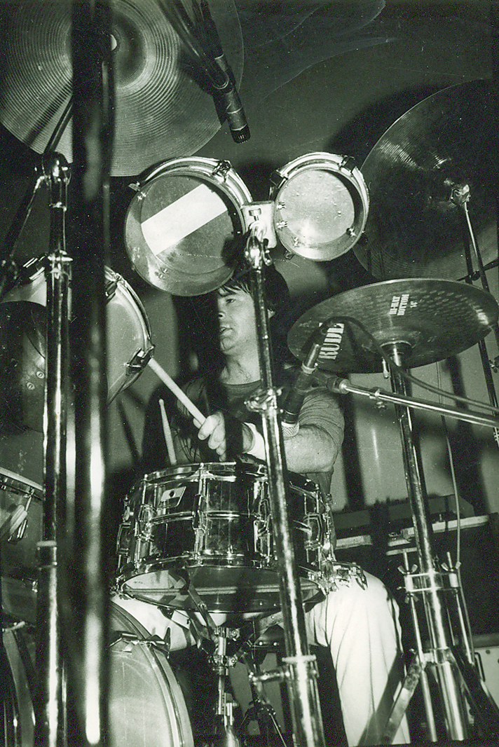 Dusan Petrovic - Duda, drummer of serbian band "Generacija 5" (Generation 5)